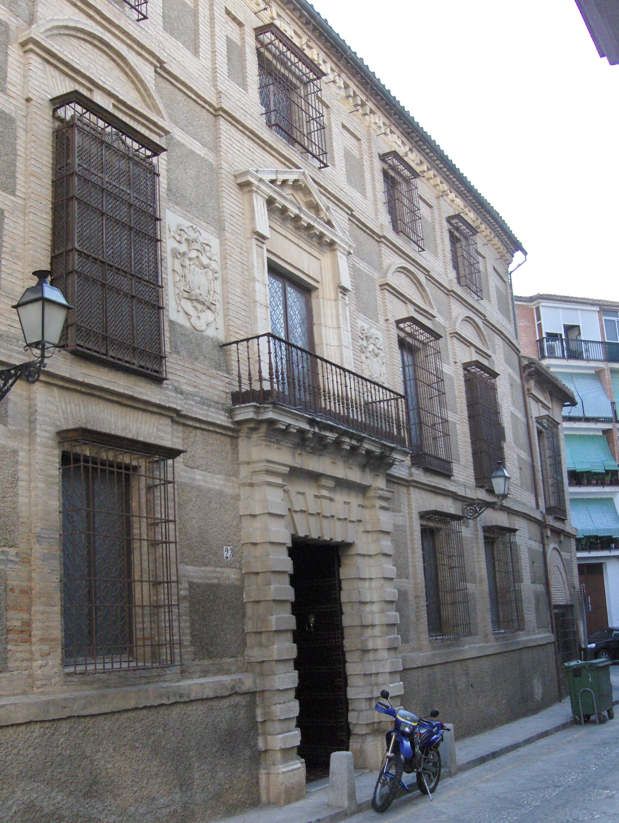 Palace of Marqués de las Escalonias, Antequera, Spain.